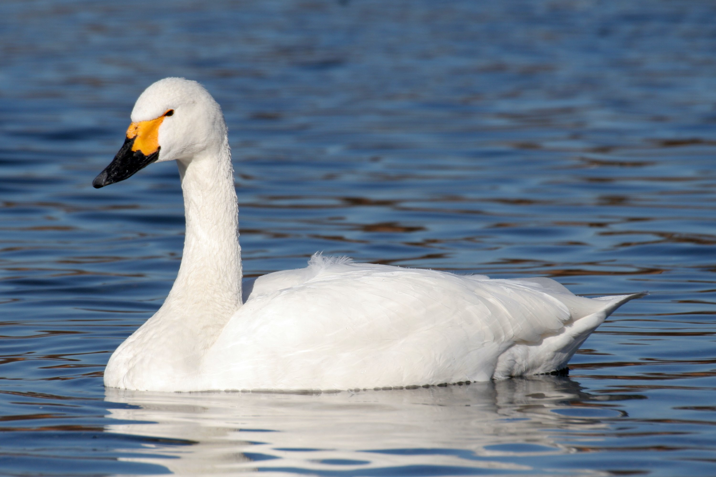 Bewick's Swan, Jan. 2006, Saitama JAPAN ; Japanese description:コハクチョウ 2006年1月 埼玉県川本町 (投稿者自身による撮影)